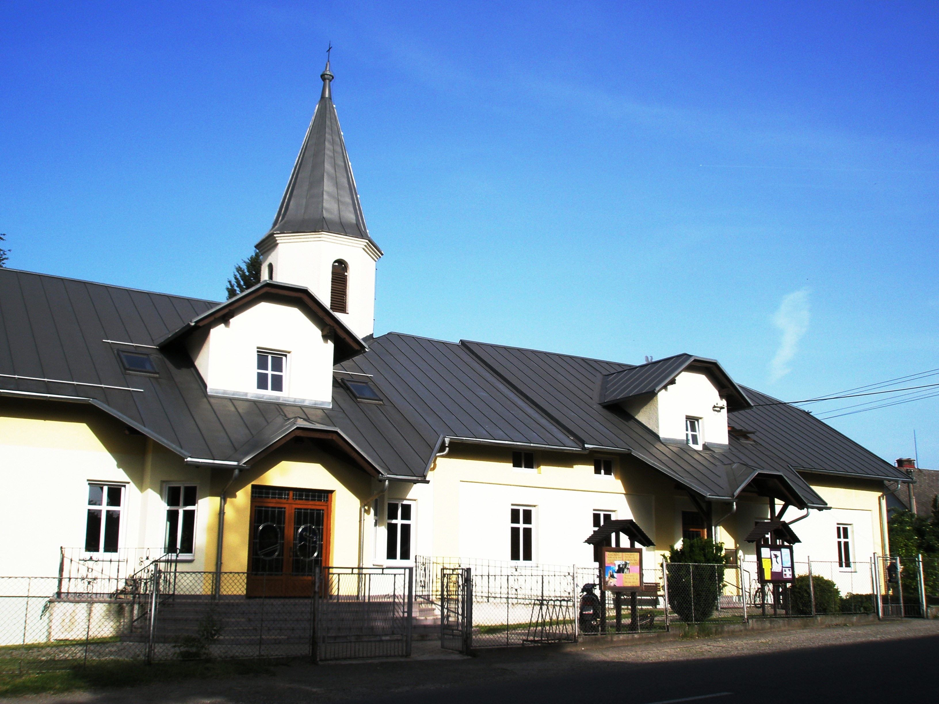 Lutheran church (former Lutheran school) in Oldřichovice